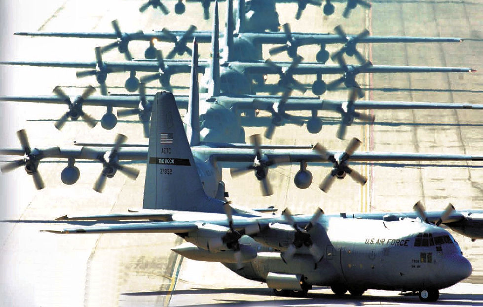 19th Airlift Wing C-130s, Little Rock AFB, Arkansas